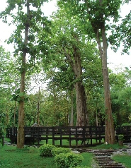 Uttaradit Province